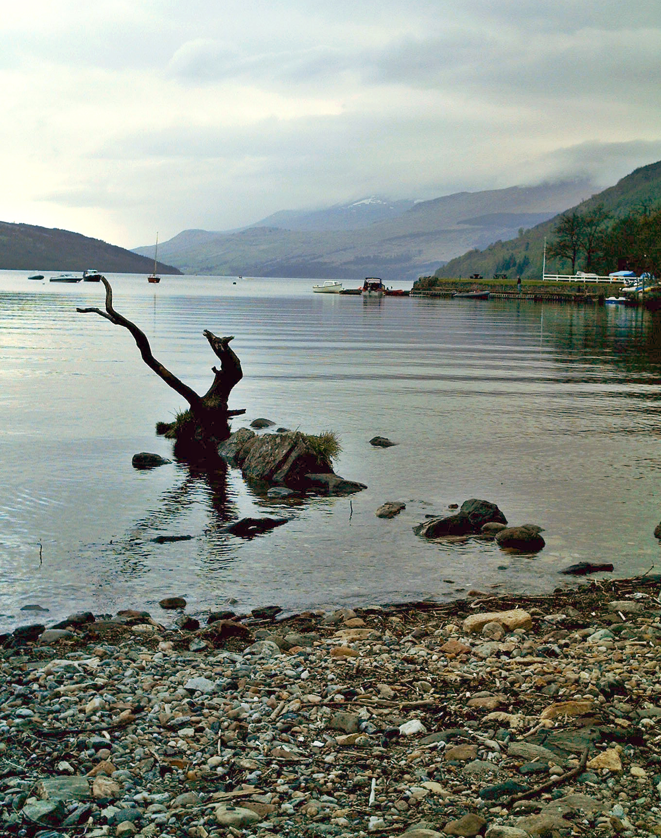 Loch Tay - Pertshire, Scotland. May 2006.